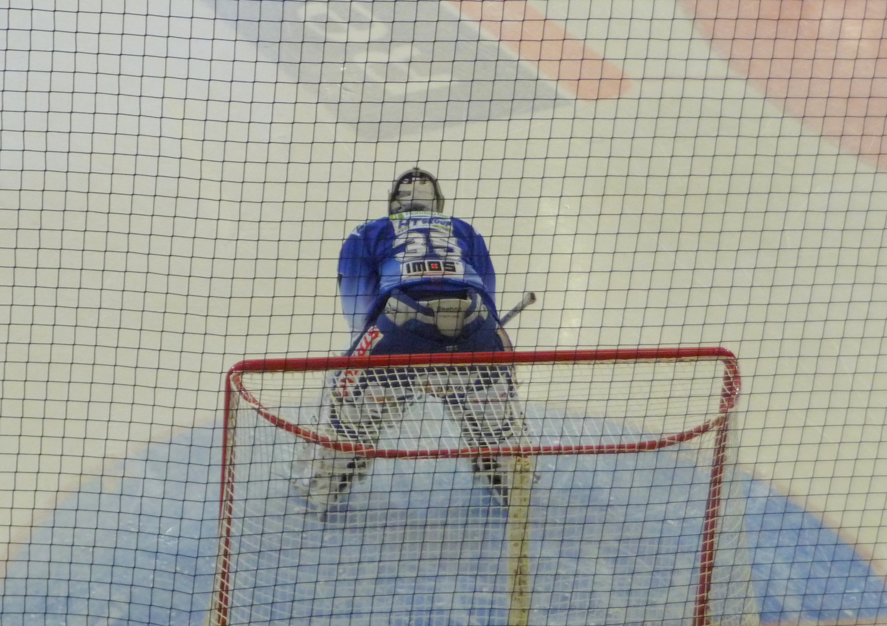 HC Kometa Brno v PSG Zlín, Jiří Trvaj waits for face off on the start of second periode -10-5-3-2◄►+2+3+5+10